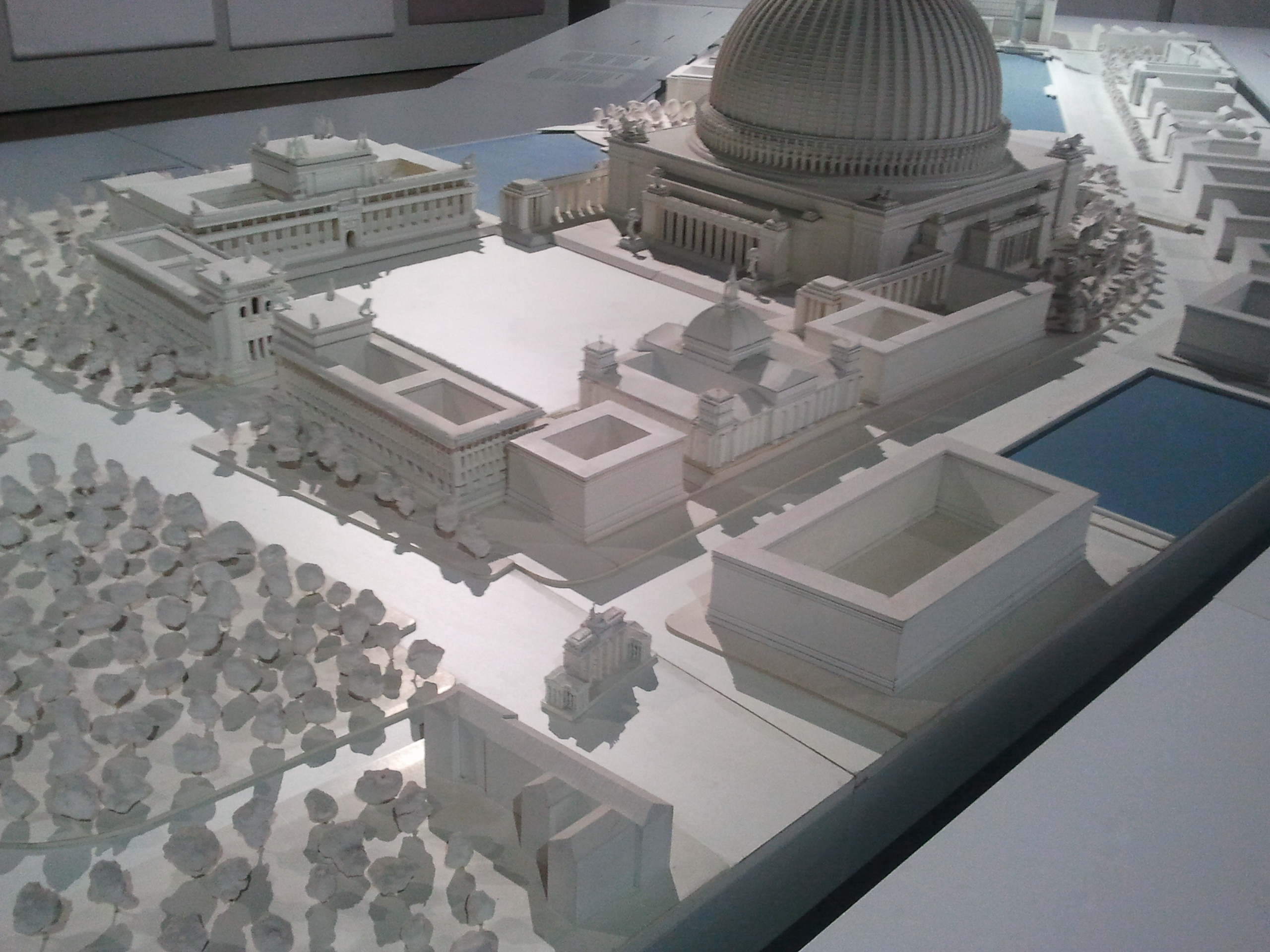 Model of the Große Halle (also called Ruhmeshalle or Volkshalle) with the Reichstag building and the Brandenburger Tor. The entire architectural model is composed of three parts resp. segments: The central part (from the triumphal arch to the Volkshalle) was built for the 2004 movie Downfall (Oliver Hirschbiegel) and is not a fully accurate realization of the Generalbauinspektor's plan. For the 2005 movie "Speer und Er" (Heinrich Breloer) the model was expanded with the significantly more precise southern and northern railway stations and its forecourts. Part of the Myth "Germania" and the "Temple City" of Nuremberg exhibition at the Documentation Center in Nuremberg (April 7, 2011 - September 11, 2011).